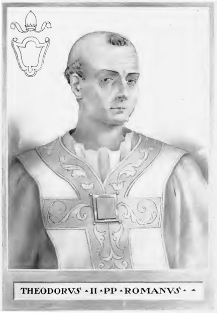 This illustration is from The Lives and Times of the Popes by Chevalier Artaud de Montor, New York: The Catholic Publication Society of America, 1911. It was originally published in 1842.